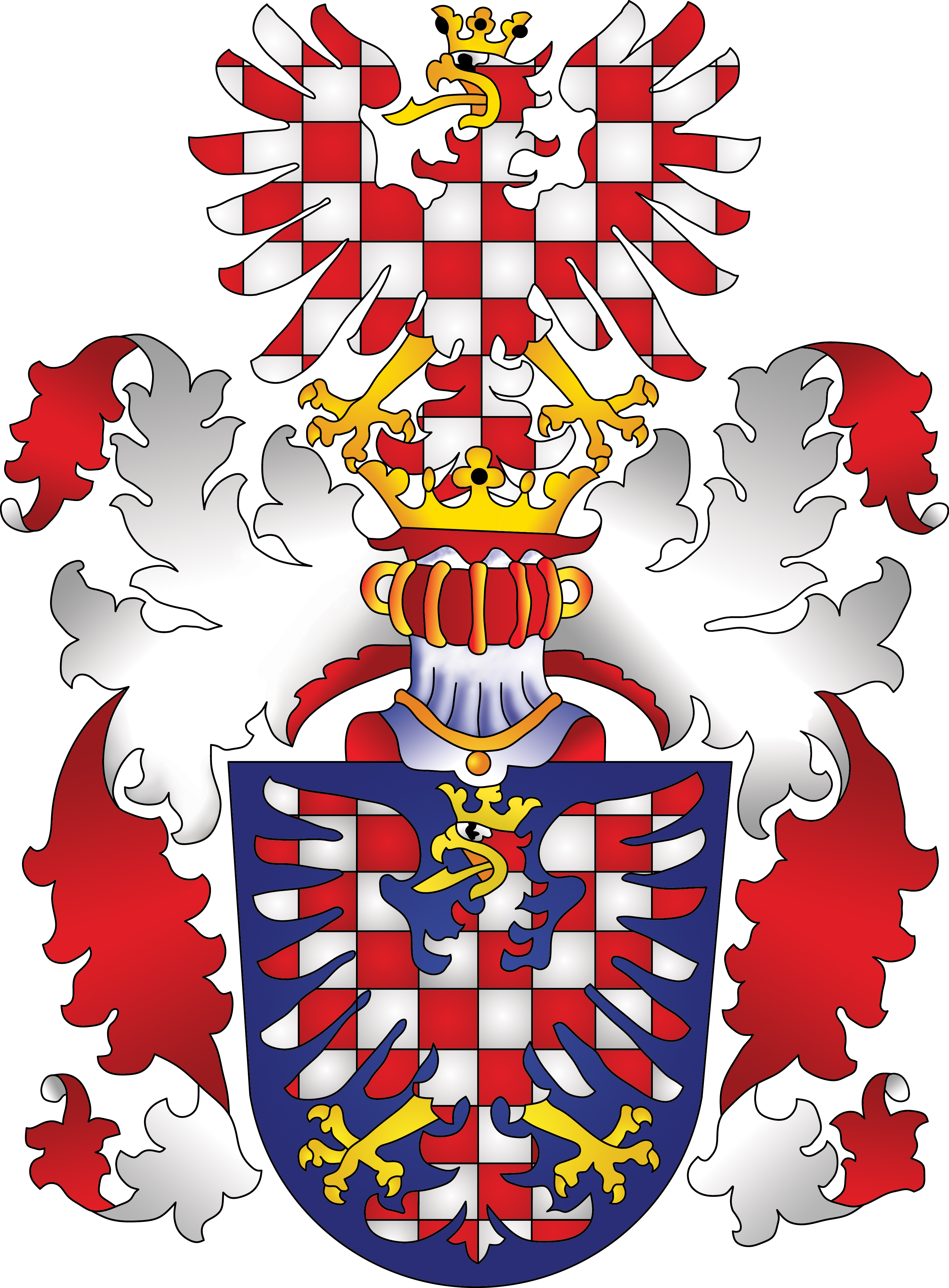 Historical coat of arms of the Margraviate of Moravia